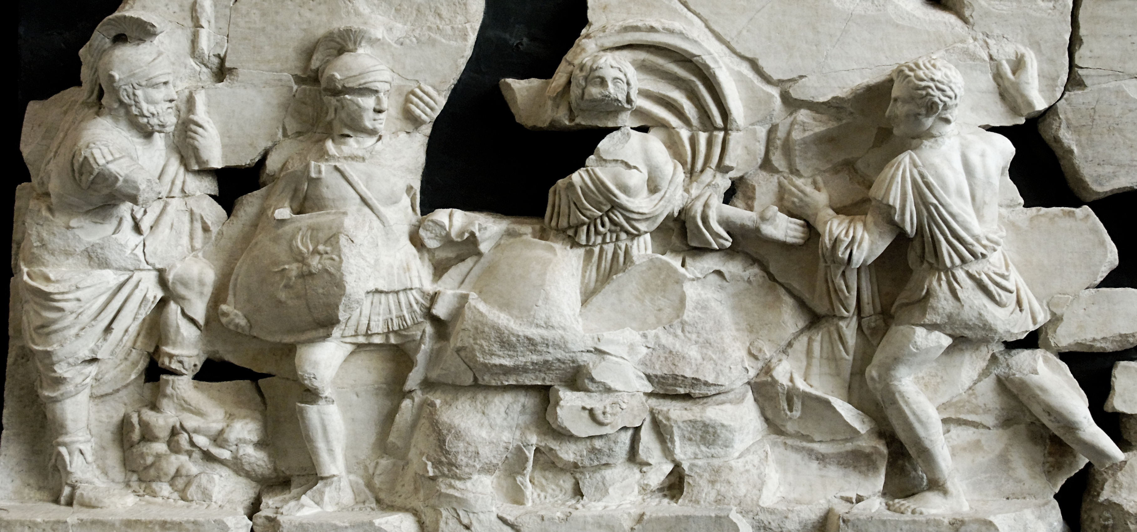 One version of the story of Tarpeia: Tarpeia is murdered by Sabine soldiers after having refused to betray Rome. Pentelic marble, fragment from the frieze of the Basilica Aemilia, 1st century BC–1st century AD.